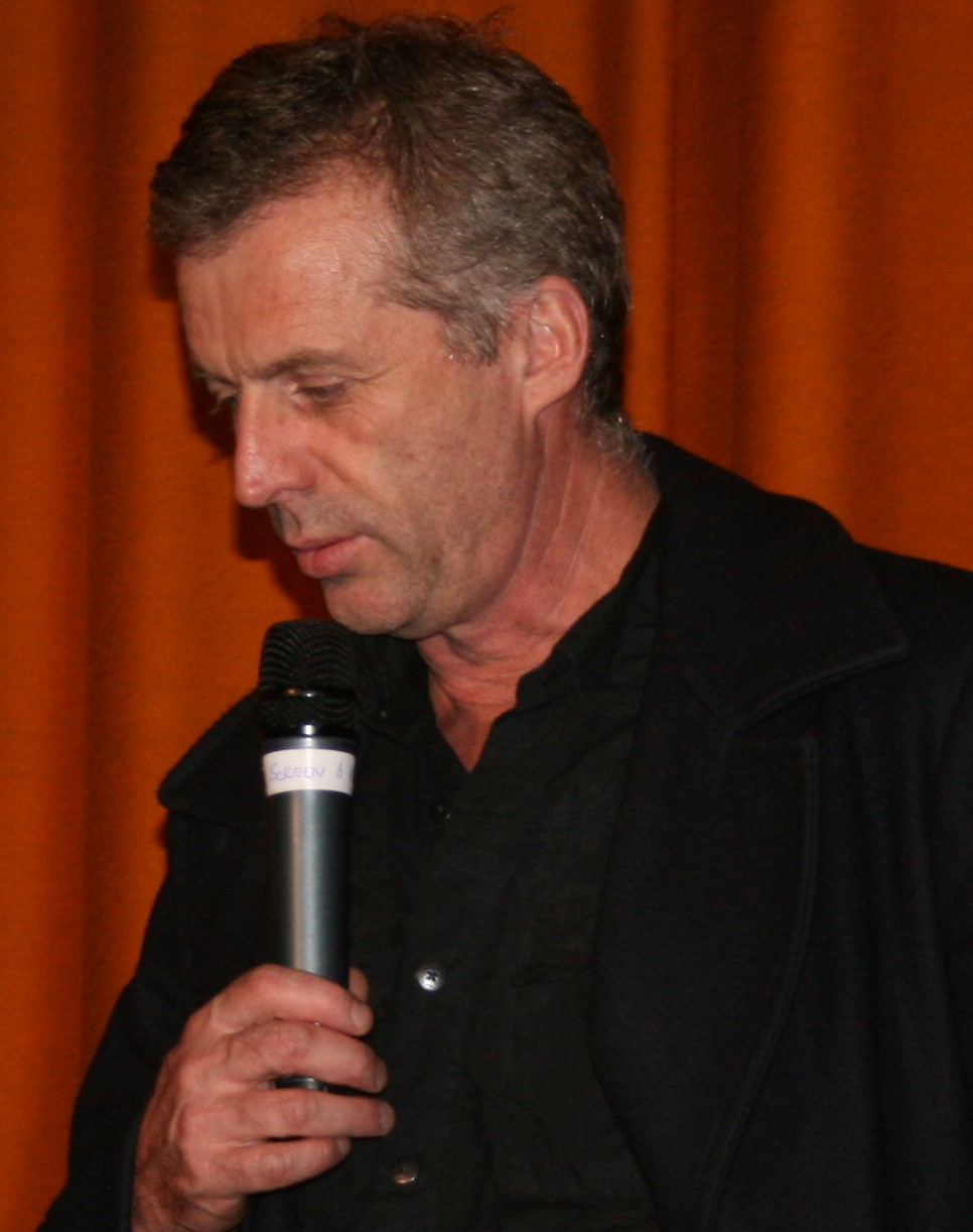 Bruno Dumont at the London Film Festival 2009.